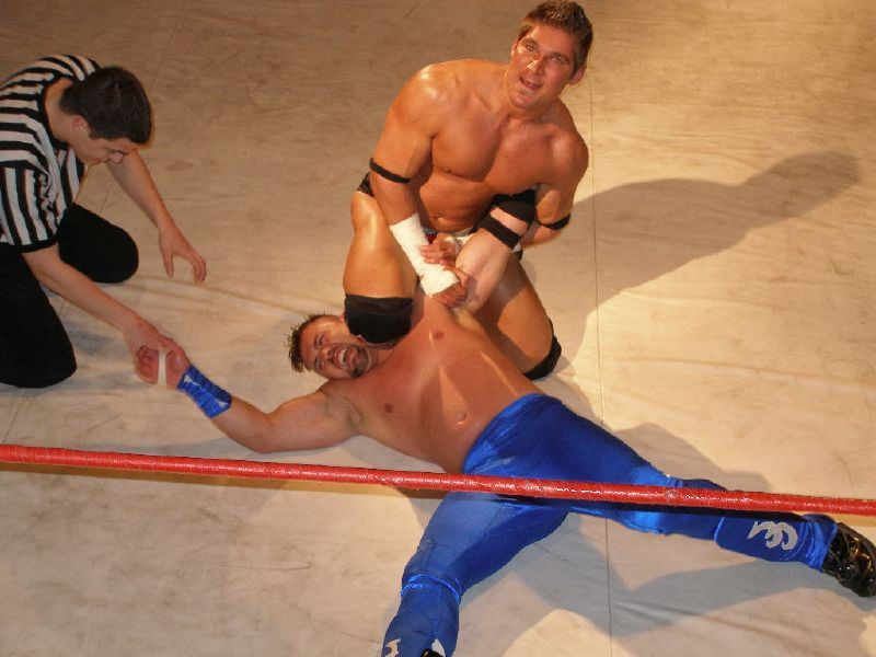 Professional wrestler Antonio Thomas (real name Thomas Matera) with an armlock on another wrestler